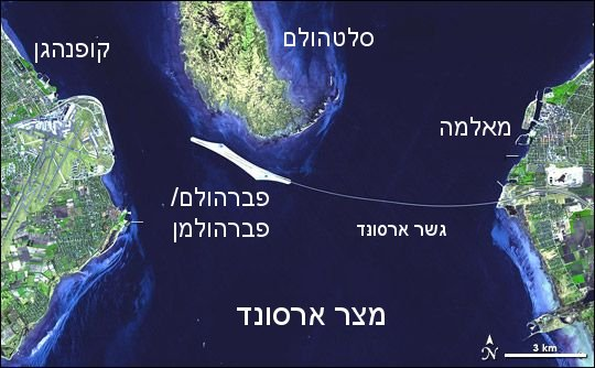 Annotated satellite image of the Oresund Bridge between Denmark and Sweden.